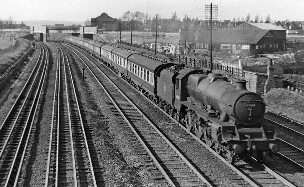 Up express on the West Coast Main Line south of Kenton. View northward on the West Coast Main Line, just north of South Kenton Station (on the electric lines only). The ex-Metropolitan & Great Central line (Baker Street/Marylebone - Harrow-on-the-Hill - Aylesbury etc.) is crossing in the background (Northwick Park Station is off to the left). With the WCML Slow lines on its right, the express on the Up Fast is the 12.05 Manchester (London Road) to Euston, headed by LMS 'Jubilee' 6P 4-6-0 No. 45624 'St Helena'.